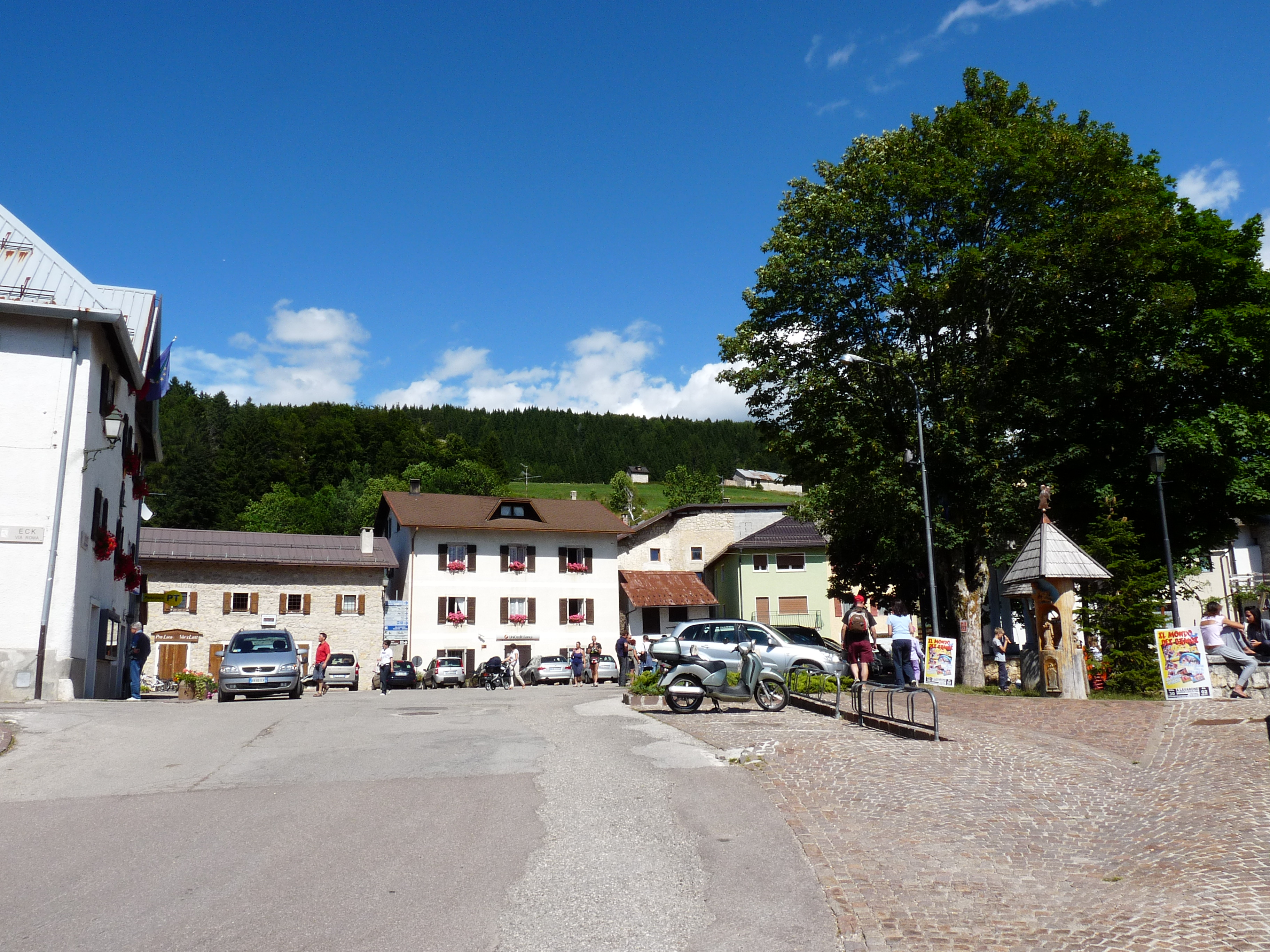 Luserna (Italy): Guglielmo Marconi square from south-west